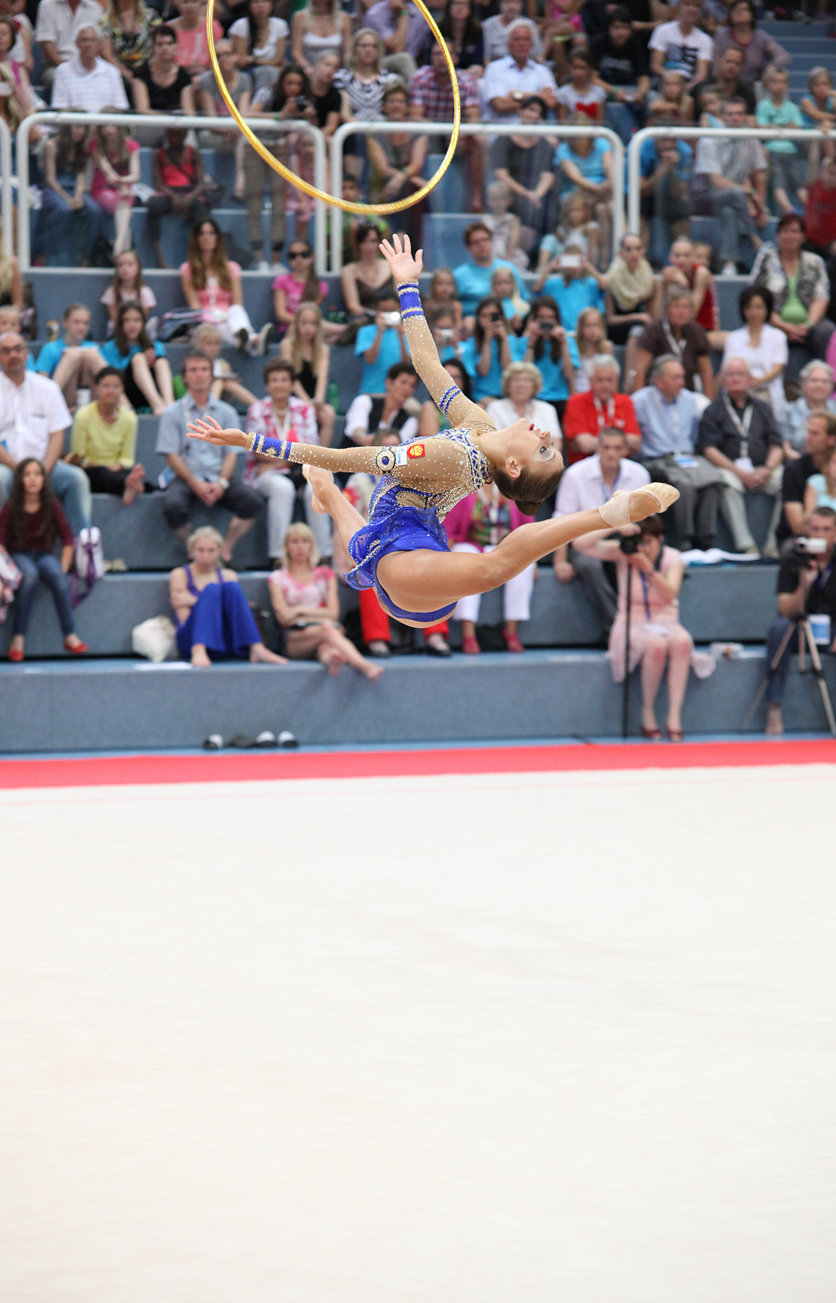 Grand Prix Rhythmic Gymnastics in Austria (Hard) 2012.